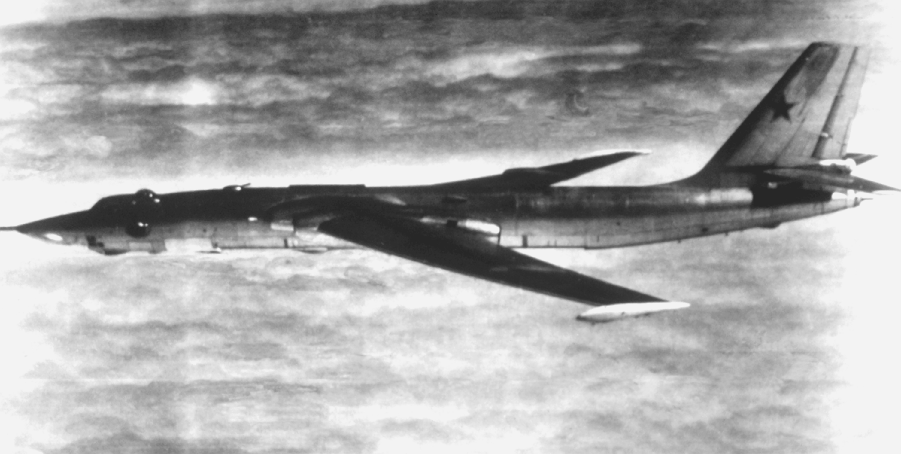 A Soviet Air Force Myasishchev 3MD bomber (NATO reporting name "Bison") in flight.